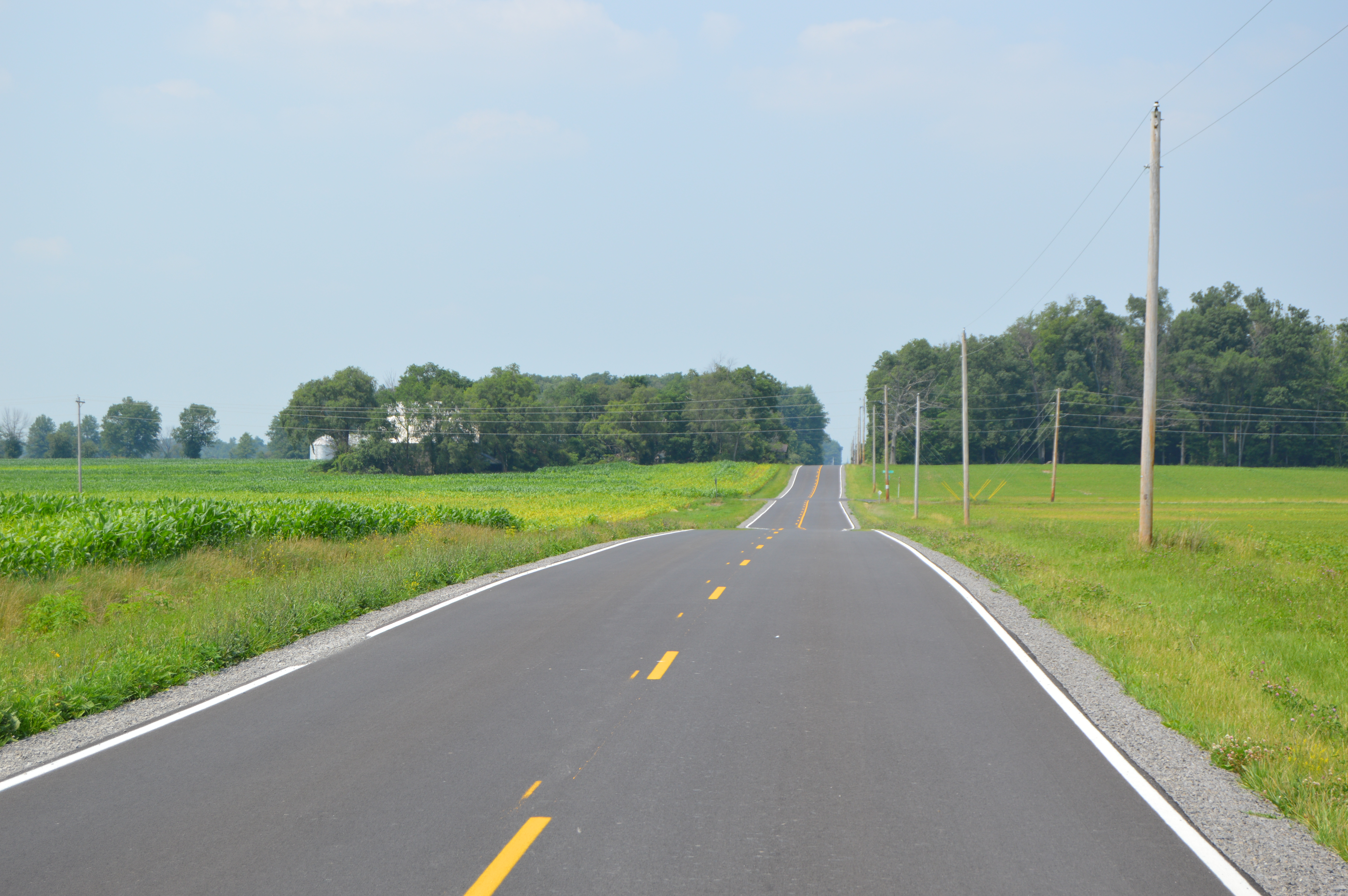 Looking north on County Road 698 northeast of New Stark in Van Buren Township, Hancock County, Ohio, United States. Until 2007, this was part of State Route 698.